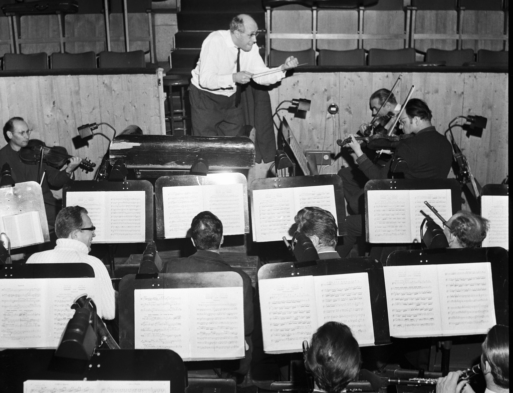 “Rostropovich rehearsing with orchestra”. Mstislav Rostropovich, People's Artist of the USSR (in the conductor's place) rehearsing Tchaikovsky's opera "Yevgeny Onegin" with the Bolshoi Theater orchestra.